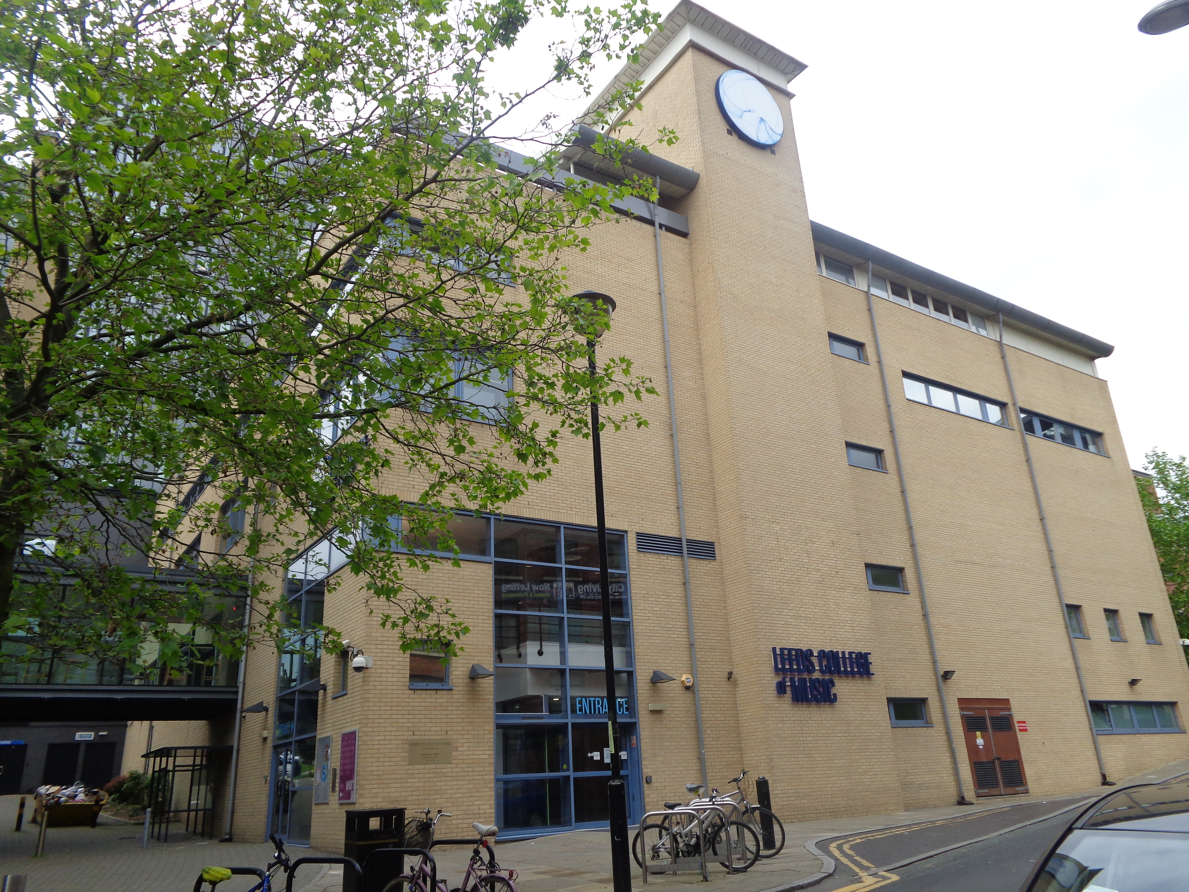 Leeds College of Music, St. Peter's Square, Quarry Hill, Leeds, West Yorkshire. Taken on the afternoon of Friday the 30th of May 2014.